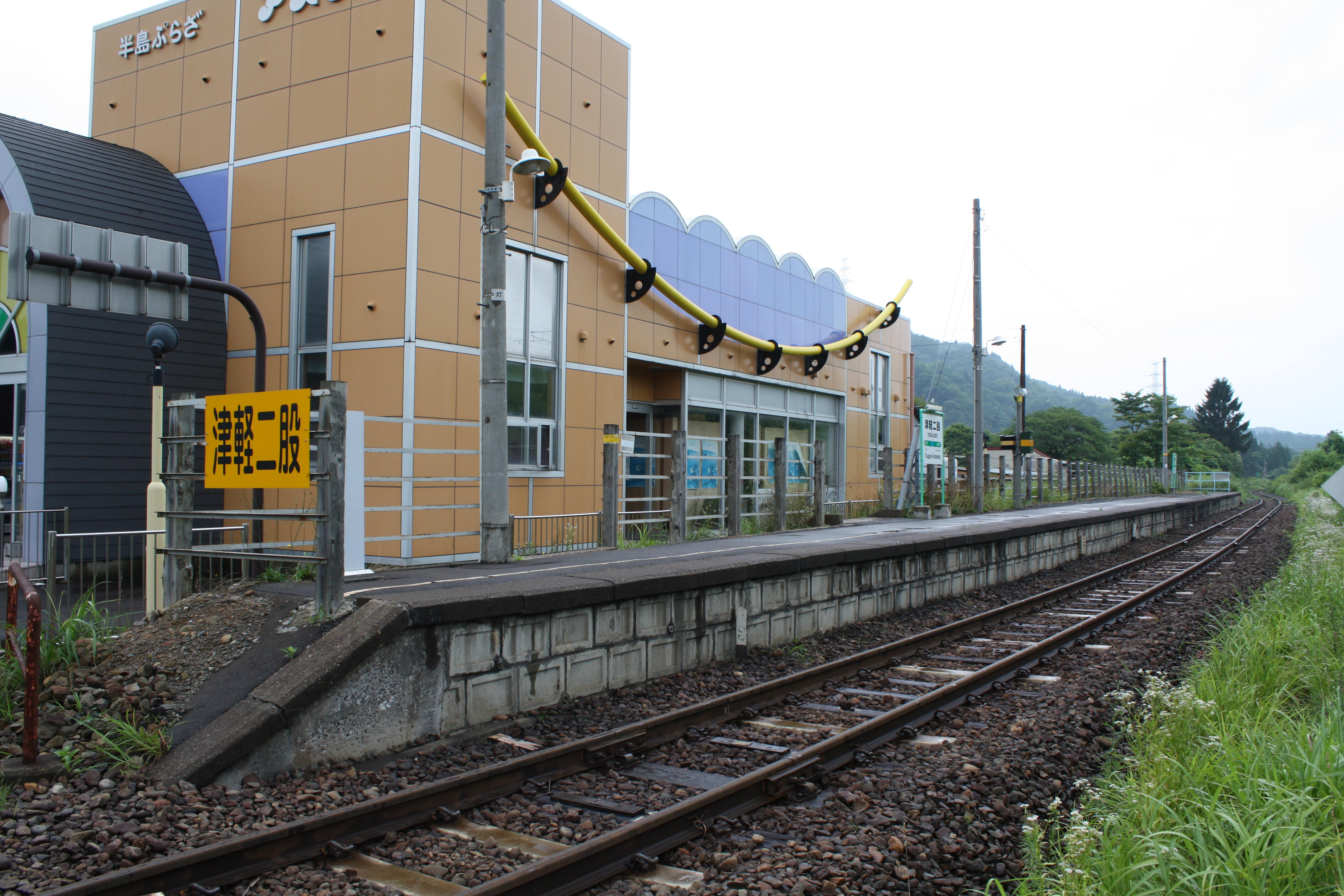 Tsugaru-Futamata Station on the Tsugaru Line operated by JR East, in Imabetsu, Aomori, Japan